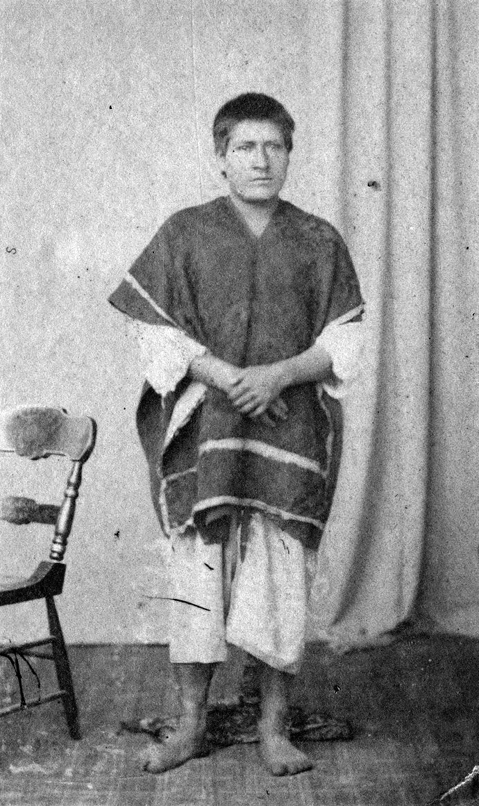 Fernando Daquilema, indigenous leader, studio portrait by Leonce Labaure in Guayaquil - Ecuador (1872)